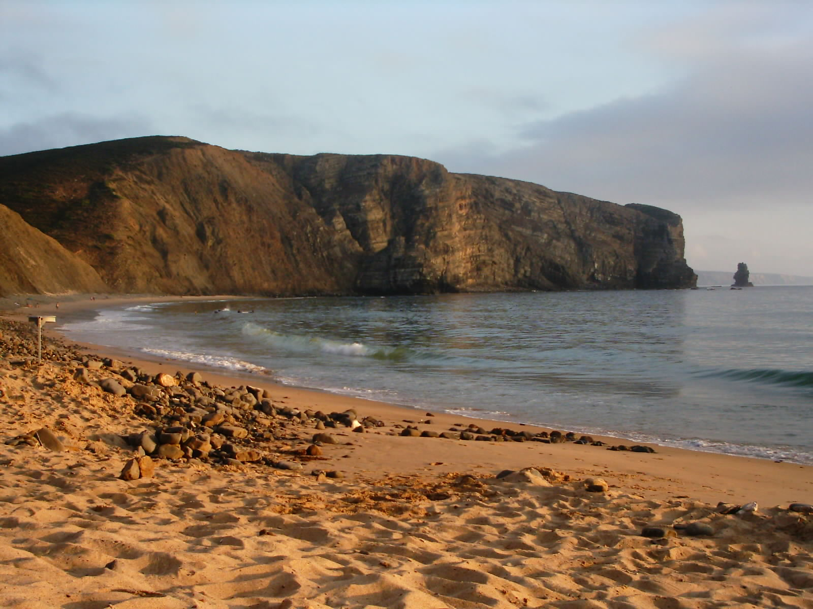 Arrifana beach, Aljezur, Portugal.